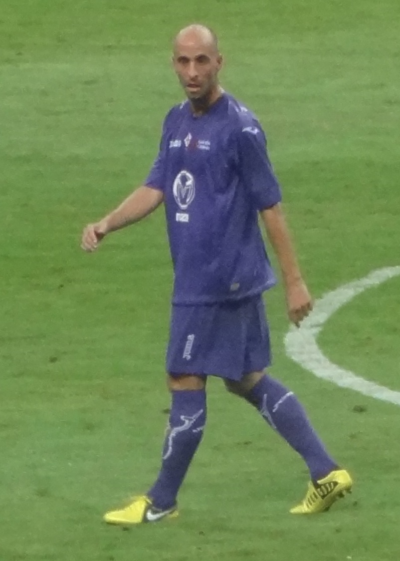 Valero against GS